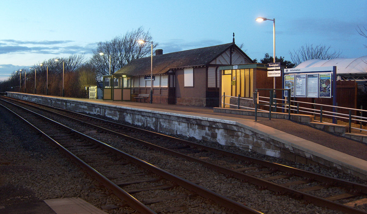 The southbound platform of the mainline railway station, Ravenglass, Cumbria, UK.